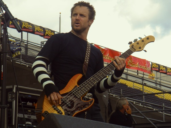 Brian Marshall,- Live in Concert 2008